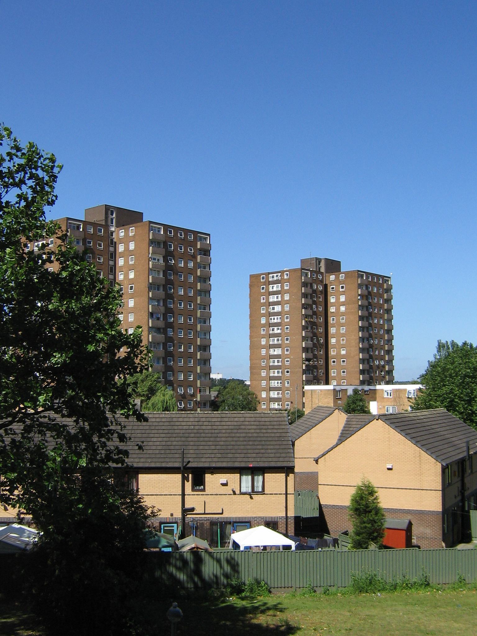 Highrise buildings in the Blackfriars area of Salford, Greater Manchester, England.